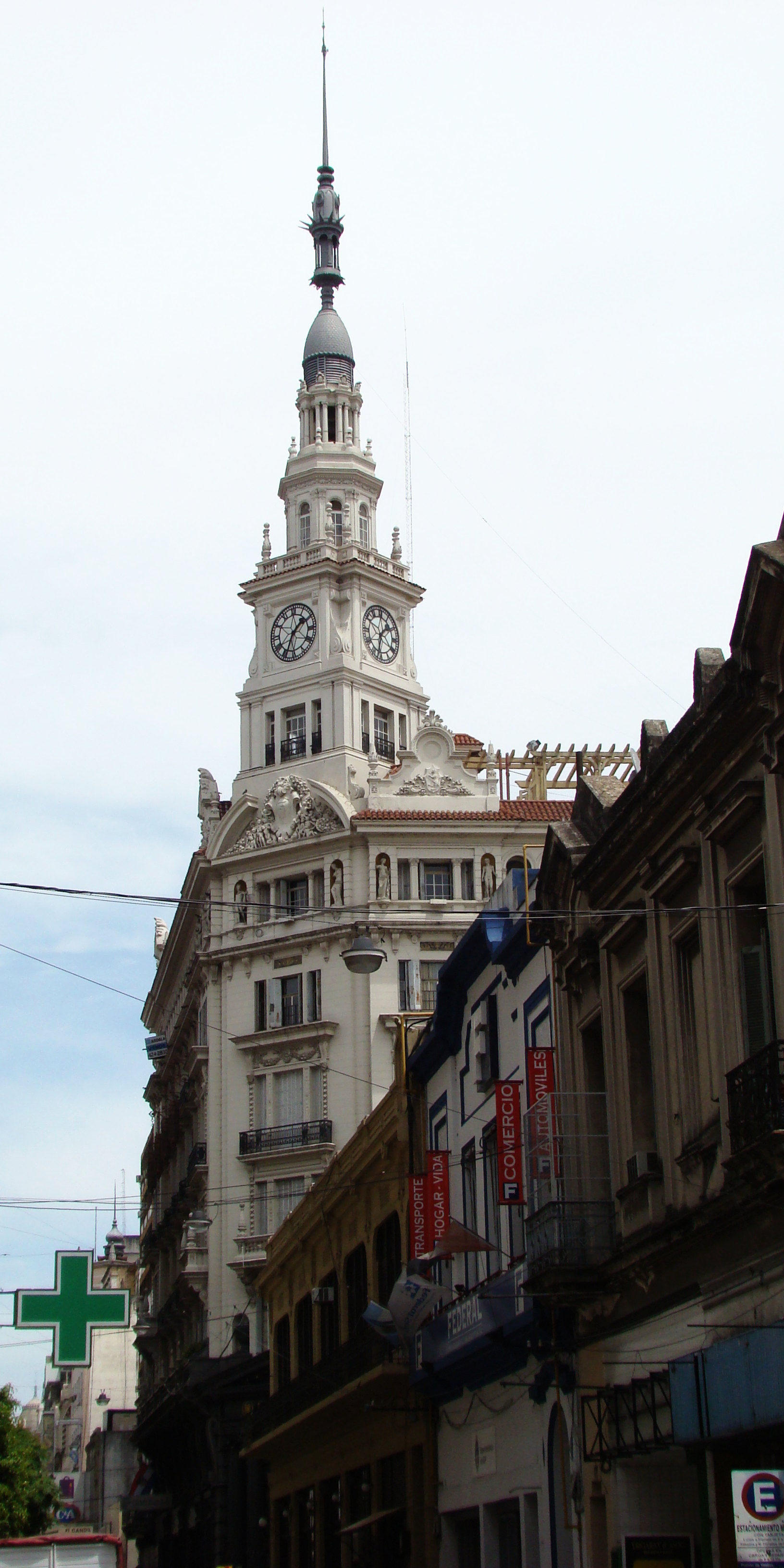 The Palacio Fuentes, Rosario, Argentina, viewed from a block away (facing south along Sarmiento St.). (Original picture was clipped and contrast-enhanced.)